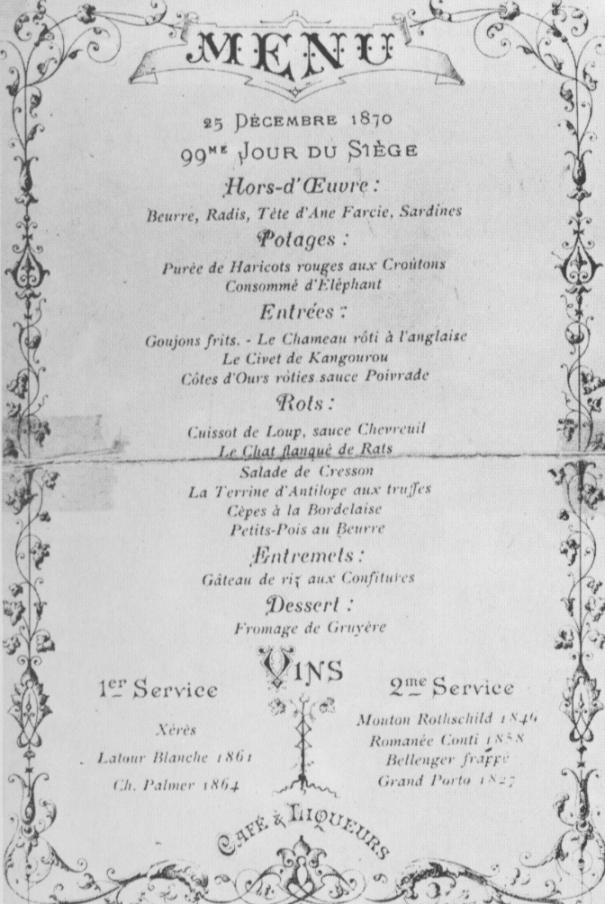 menu from restaurant "Voisin", Paris, Siege of Paris.